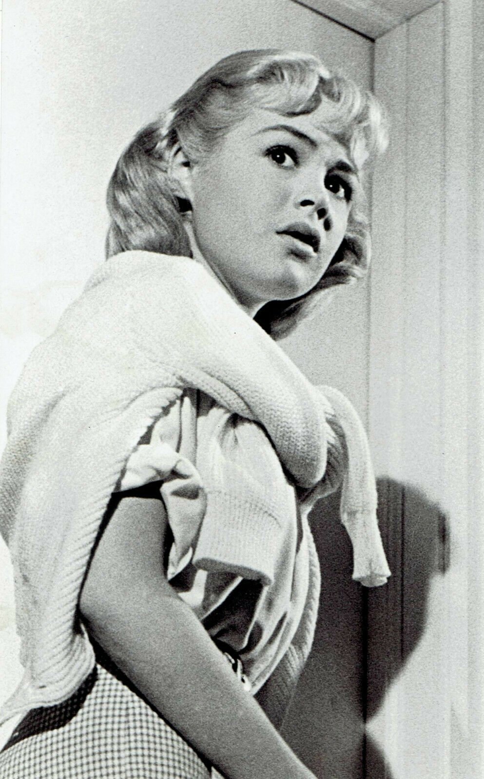 Sandra Dee in publicity still for Imitation of Life